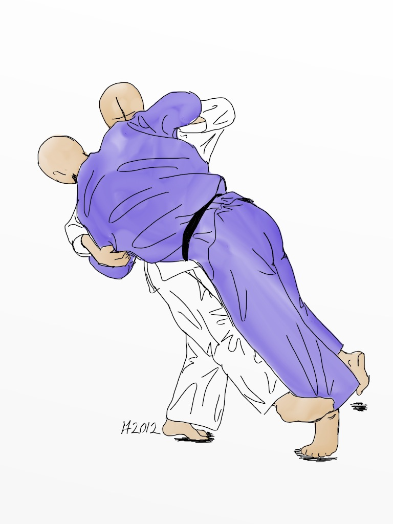 Illustration of the judo throw sasae-tsuri-komi-ashi, or propping-pulling foot-sweep, where you pull the opponent towards you and throw by sweeping his foot backward while twisting to throw him forward.